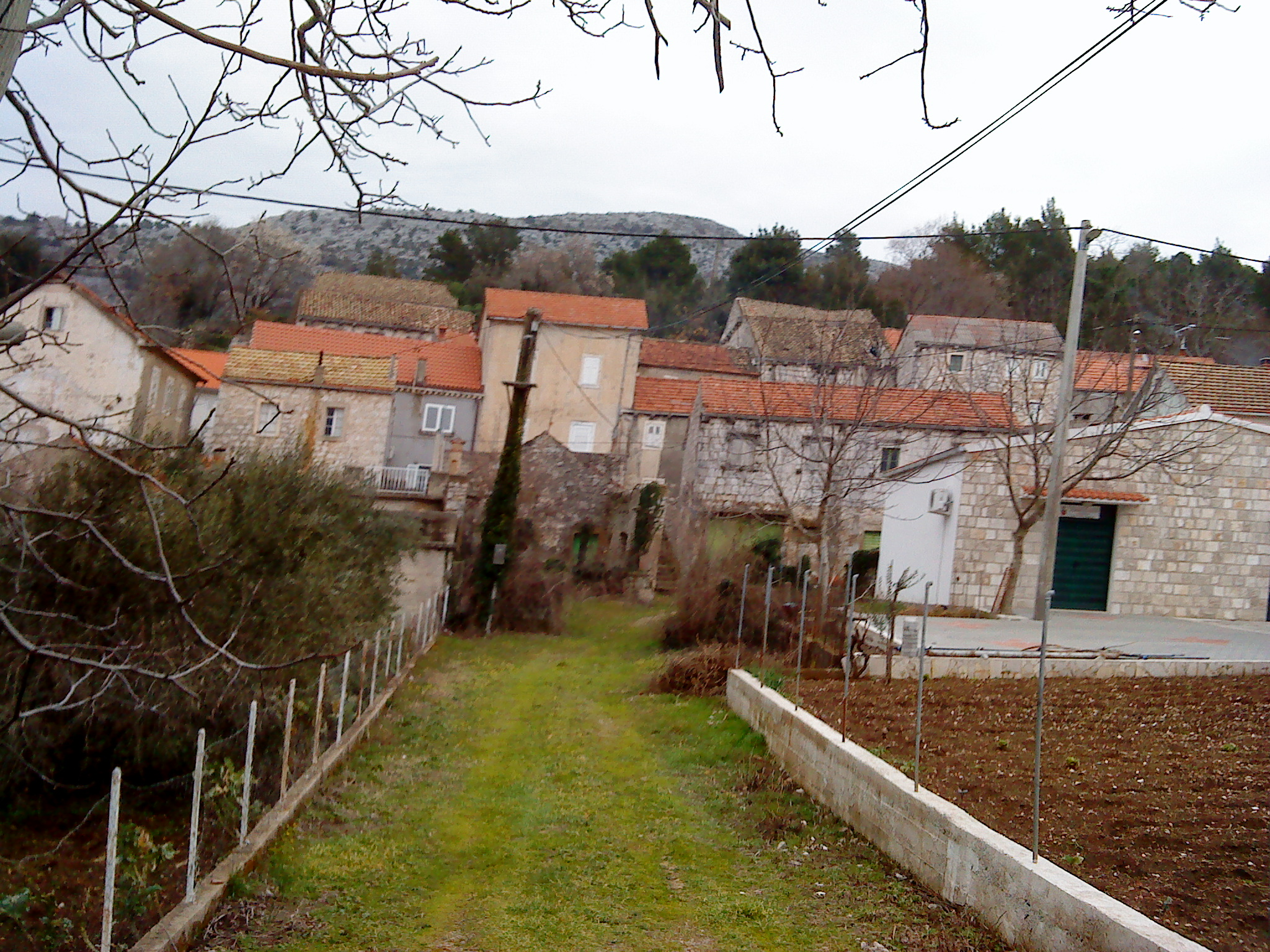 Village Pijavičino, Pelišac